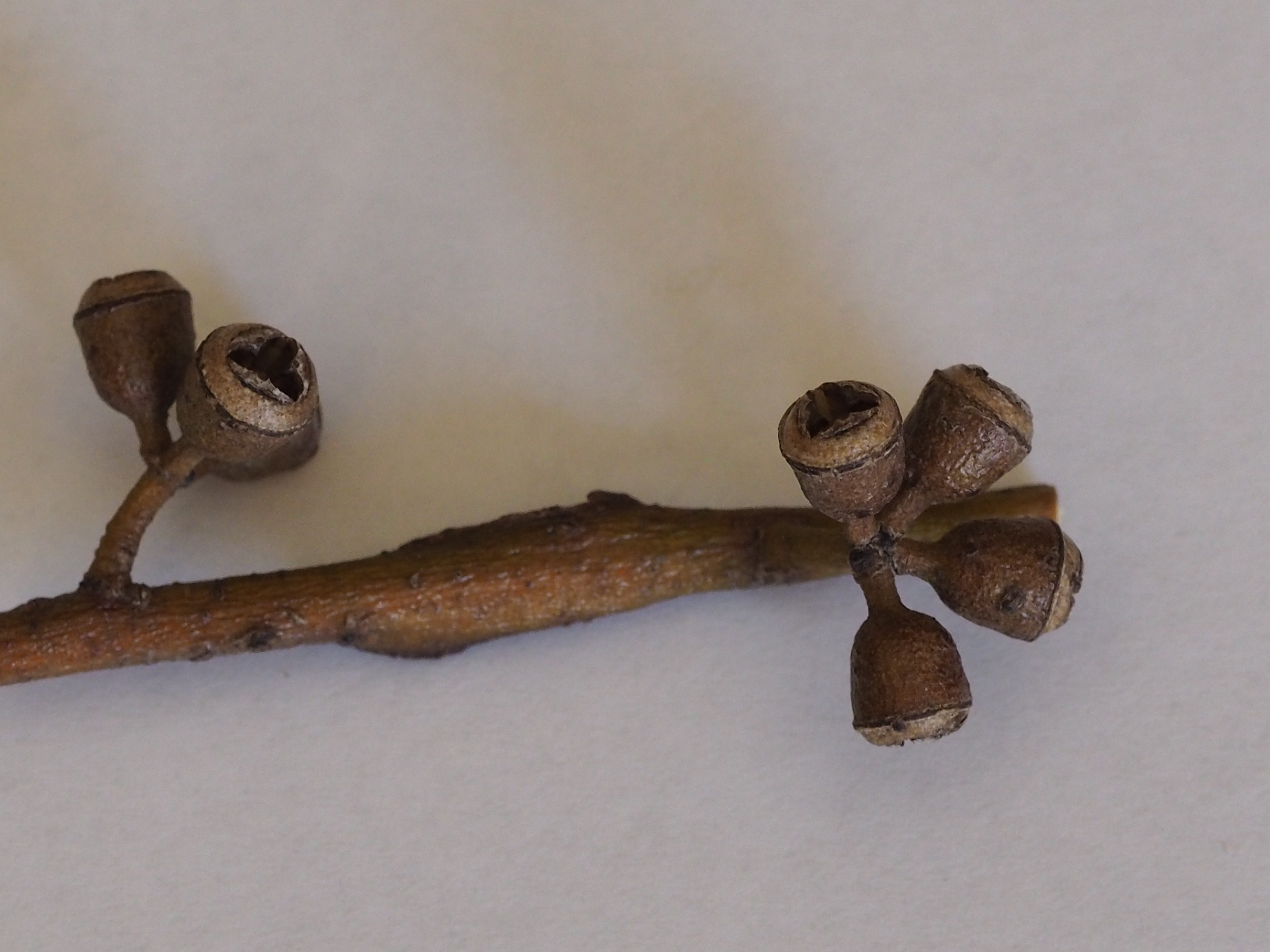 Fruit of Eucalyptus scoparia in an Armidale (N.S.W.) garden